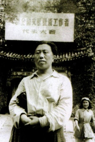 Li Jiefu participated in the All-China Congress of Literary and Arts Workers (Zhongguo quanguo wenxue yishu gongzuozhe daibiao dahui). The Photo was taken at 1949, according to the copyright law in China, it has been in public domain.